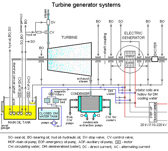 Diagram showing Turbine Generator with example auxiliary systems in a thermal power station. Legend for explaining abbreviations: SO - seal oil; BO - bearing oil; hyd oil - hydraulic oil SV - stop valve; CV - control (governor) valve MOP - main oil pump; EOP - emergency oil pump; AOP - auxiliary oil pump M inside a small rectangle - motor; DC - direct current; AC - alternating current CW - circulating water; DM - demineralised (water)